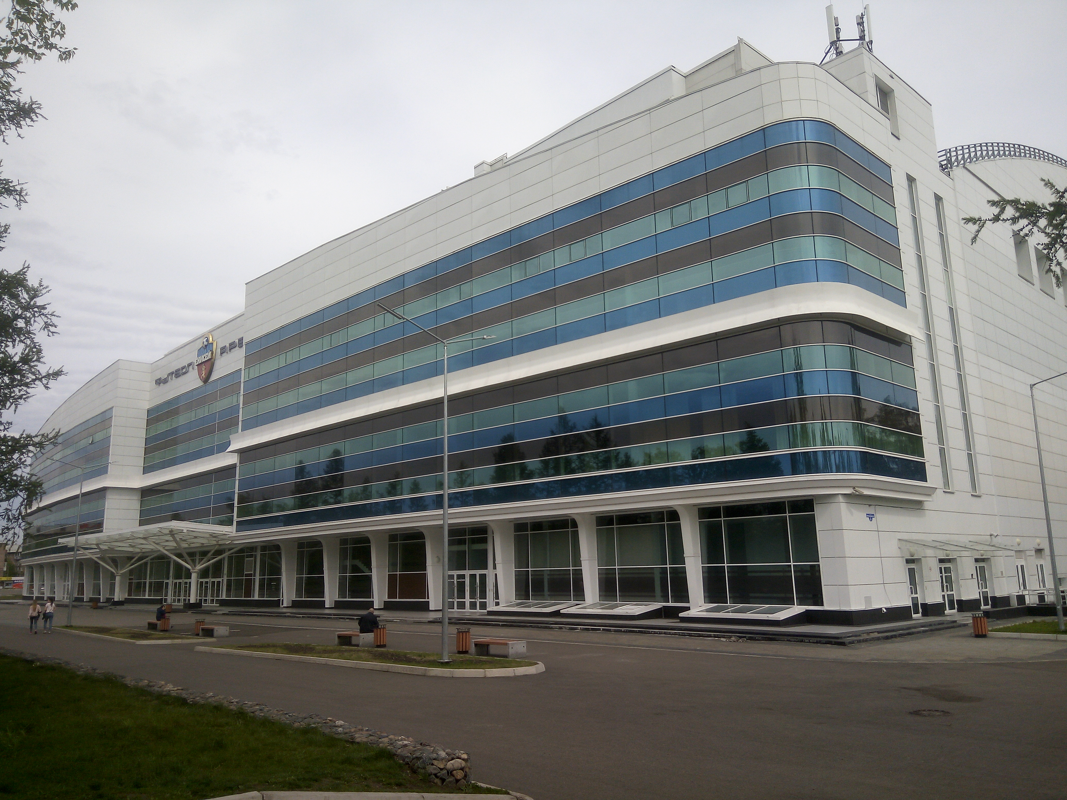 in title